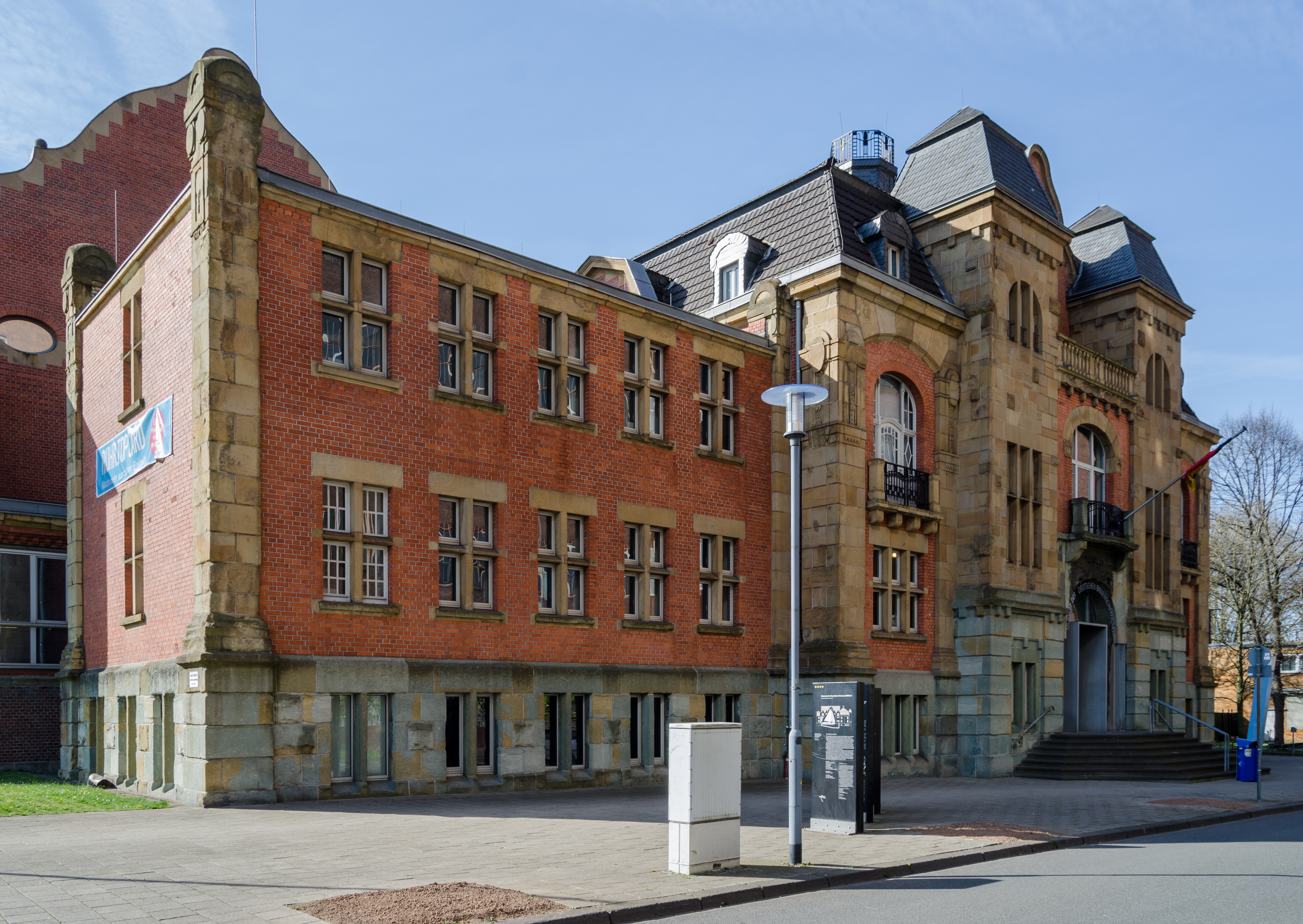 Duisburg (North Rhine-Westphalia, Germany) – borough Homberg/Ruhrort/Baerl, district Ruhrort – German Inland Waterways Museum